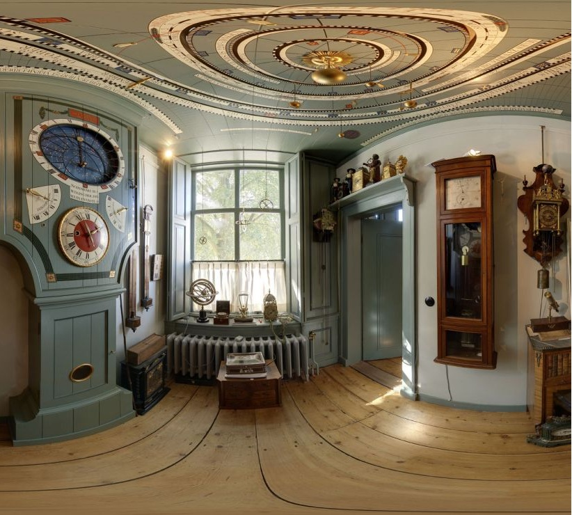 Here you see the room, where the Planetarium Zuylenburgh is situated